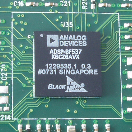 Analog Devices Blackfin BF537 Microcontroller/DSP